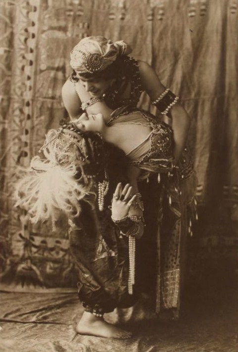 dancers Gertrude Hoffmann & Theodore Kosloff in the ballet Scheherazade - publicity still (cropped : see source)